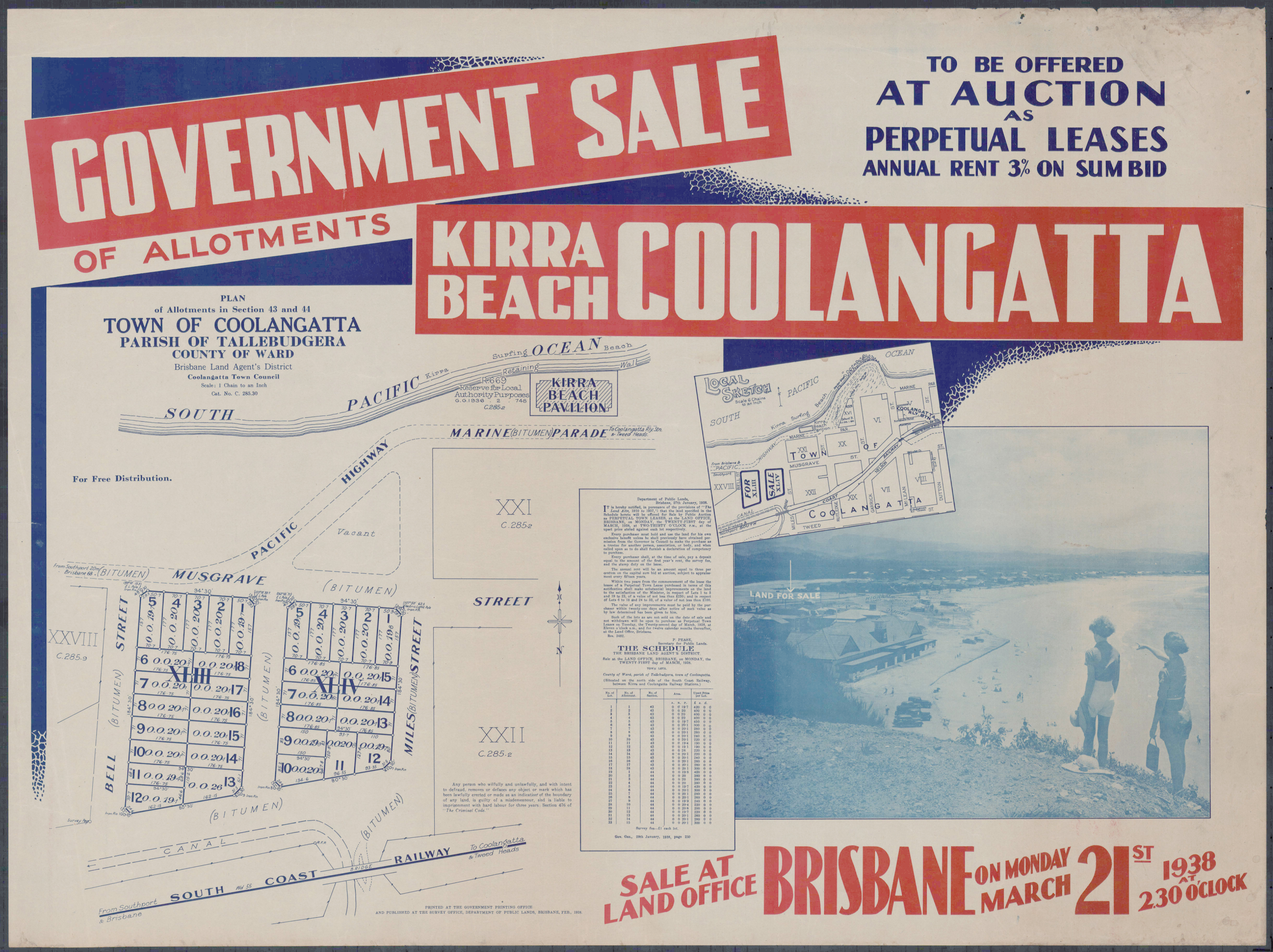 Government land sales, Kirra Beach, Town of Coolangatta, 1938